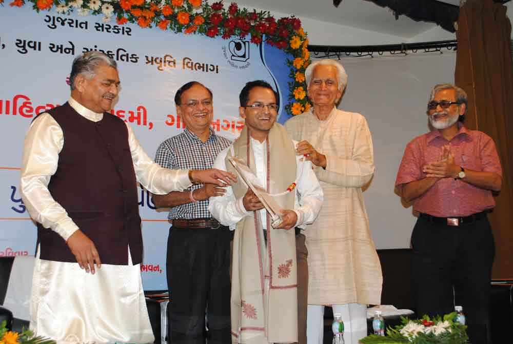 Anil Chavda at Gujarati Vishwakosh Trust on the event of Yuva Gaurav Award ceremony 24 July 2011